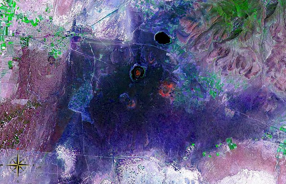 Karapinar Field in Turkey. Satellite view.